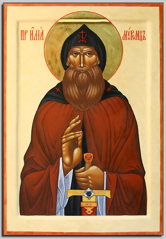 Saint Ilya Muromets (prepodobny Iliya Pechersky)